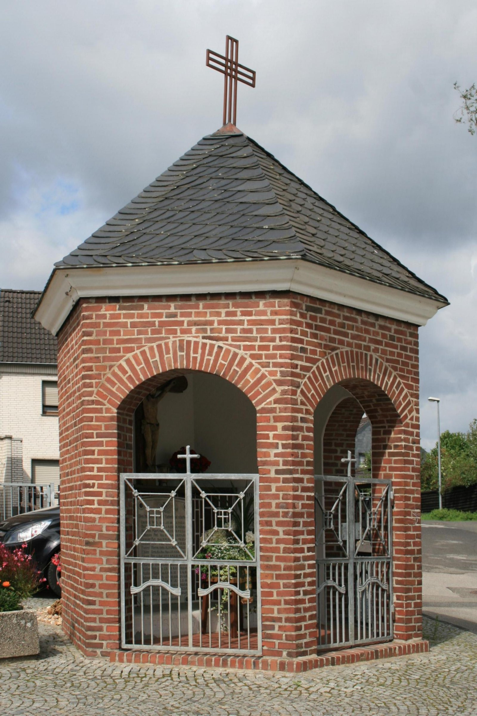 Cultural heritage monument No. R 087 in Mönchengladbach